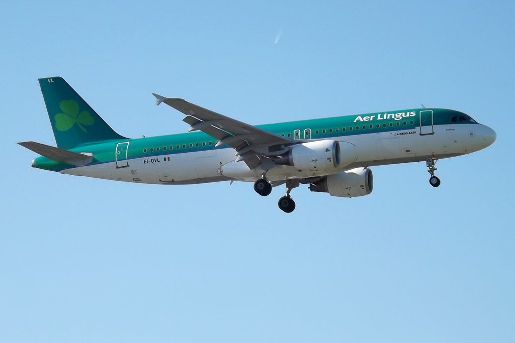 EI-DVL A320 Aer Lingus